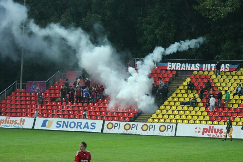 Fans of Ekranas Panevėžys at Vėtra Stadium, Vilnius